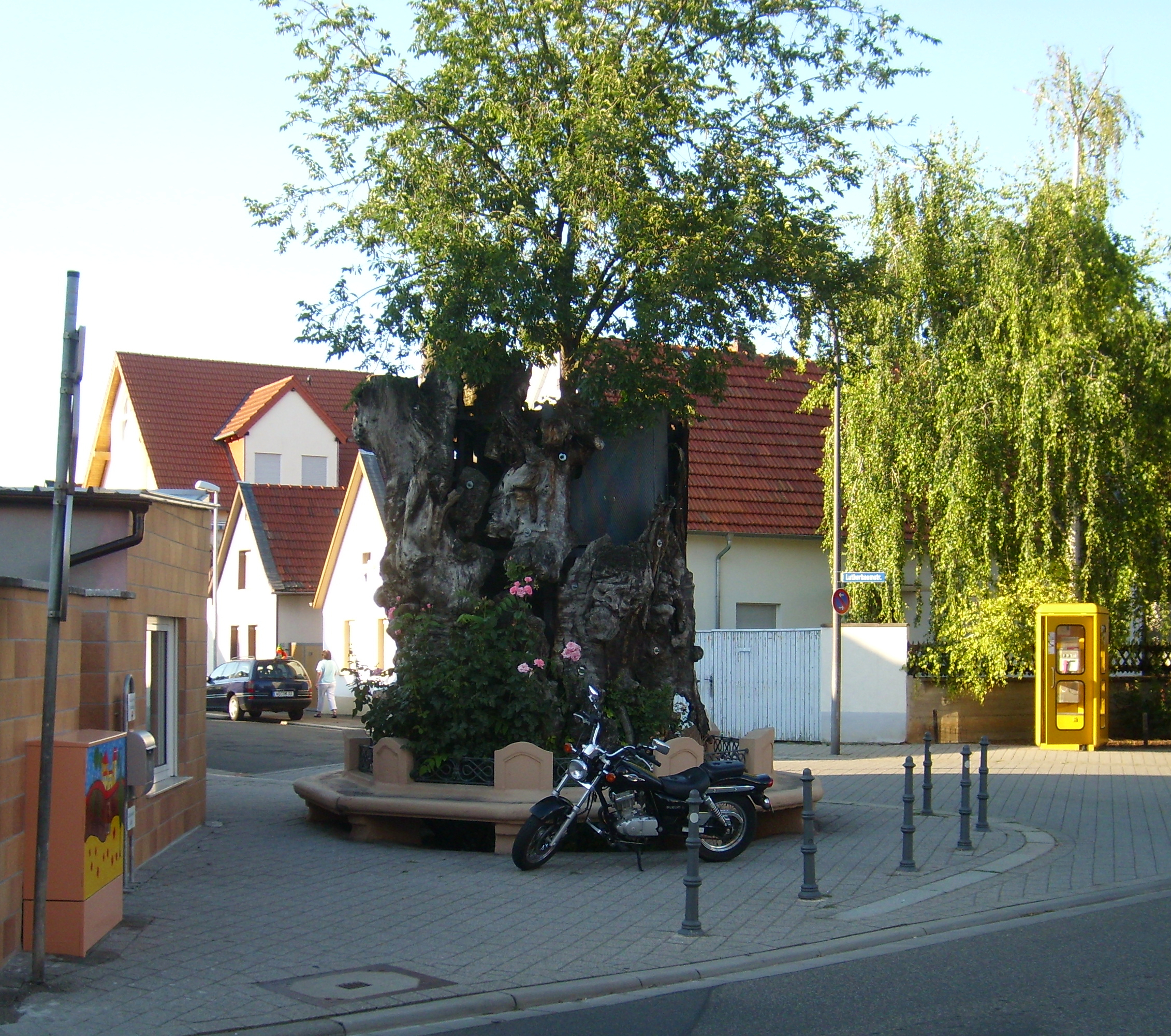 The Lutherbaum (Luther Tree) in Worms-Pfiffligheim, resp. its remains as of 2010